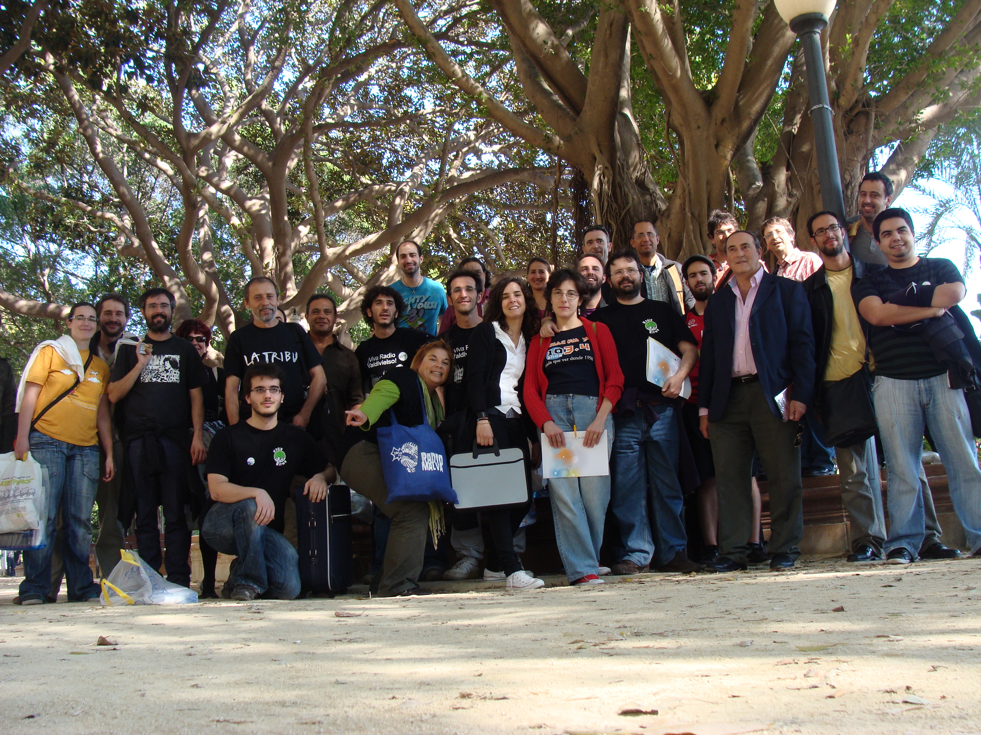 Participants at the VI Meeting of Community Media, in (Alicante, España).